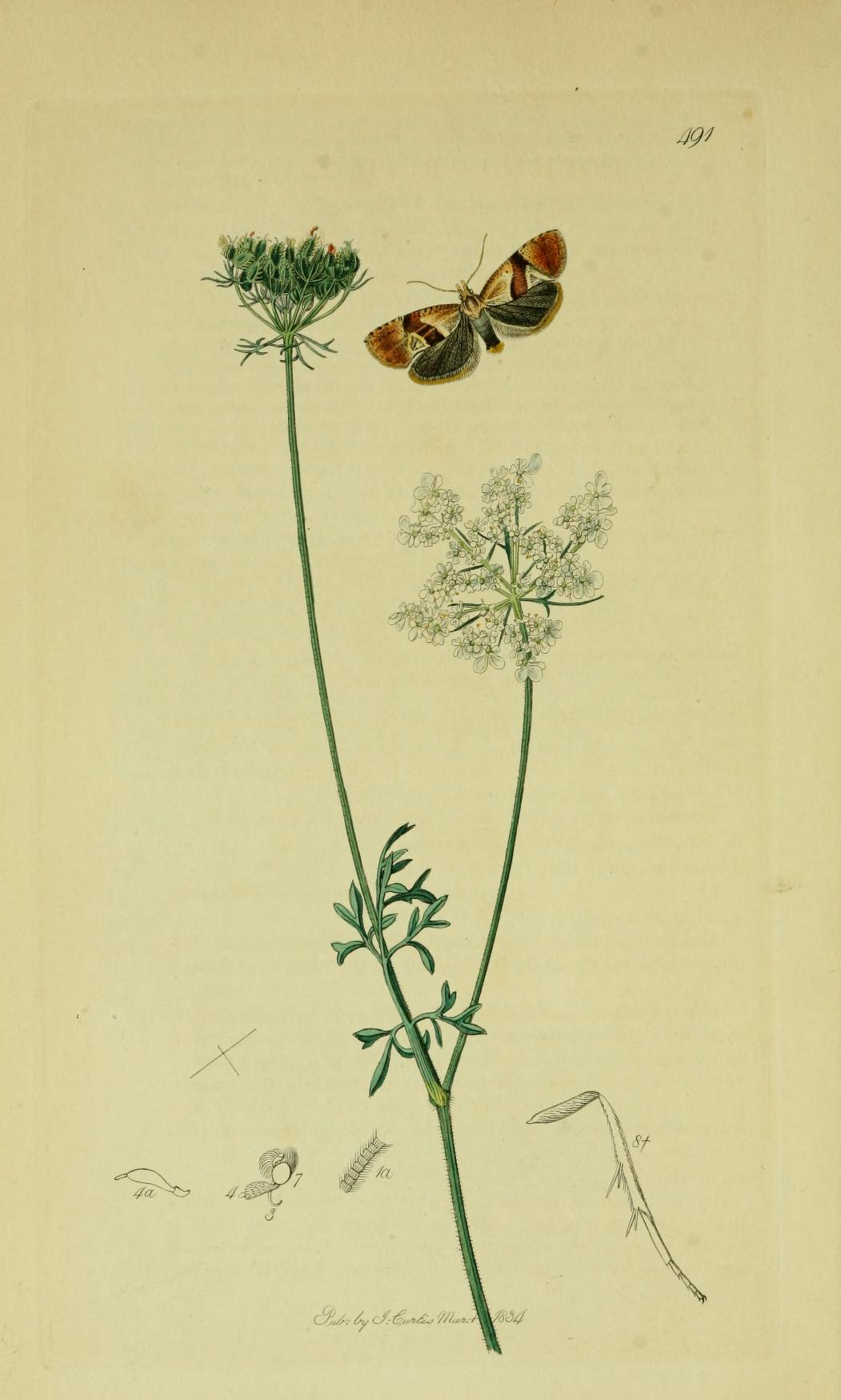 An illustration from British Entomology by John Curtis. Lepidoptera: Cochylis rupicola or Cochylidia rupicola (Chalk-cliff Tortrix, Conch).